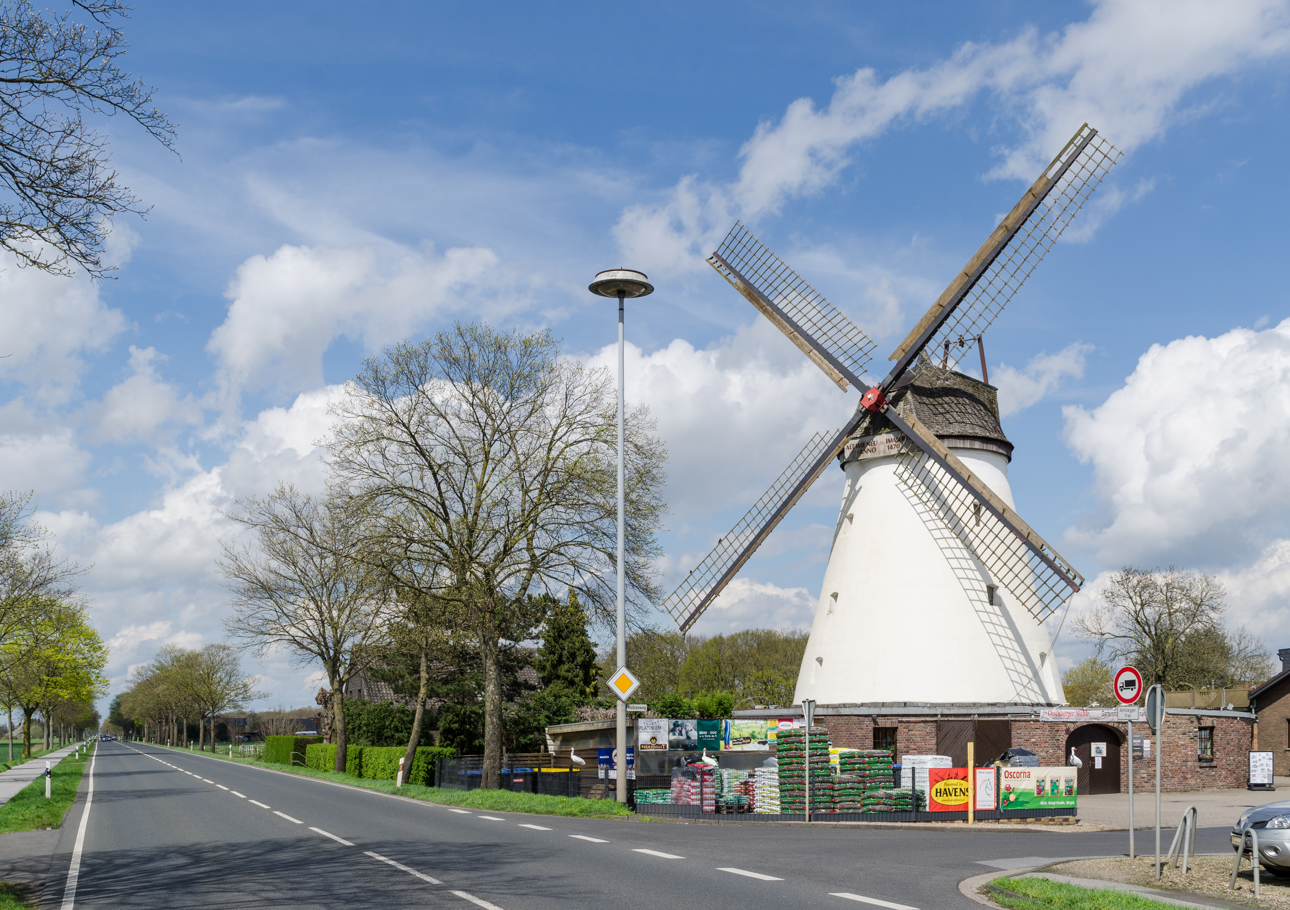 Rheinberg (North Rhine-Westphalia, Germany) – district Ossenberg – windmill